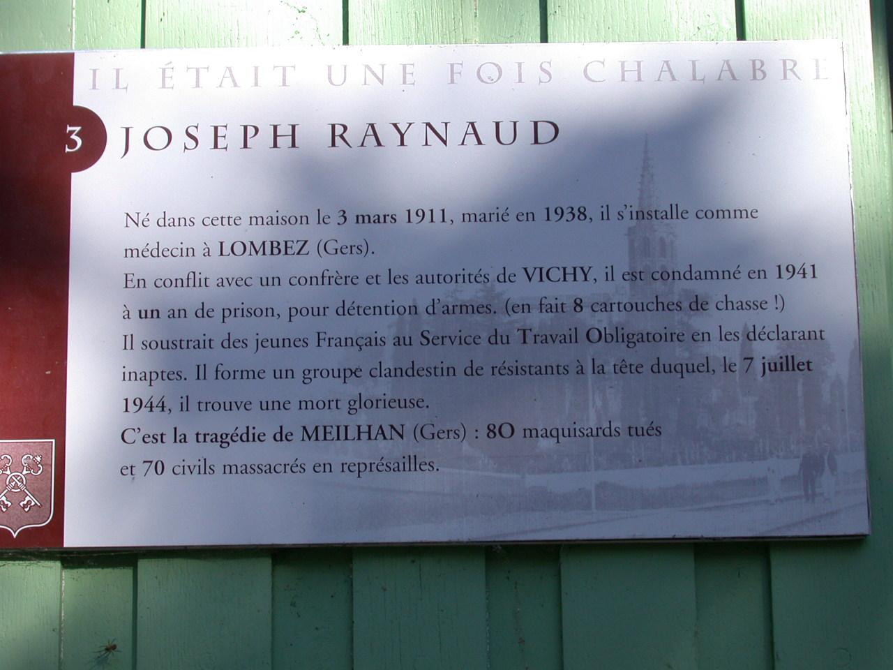 Commemoration plaque in Chalabre, Aude dept, France. Holiday photograph by Collieman. Part of photogallery from